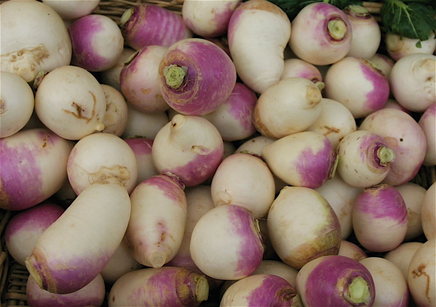 Turnips (Brassica rapa) at the Portland Farmers Market